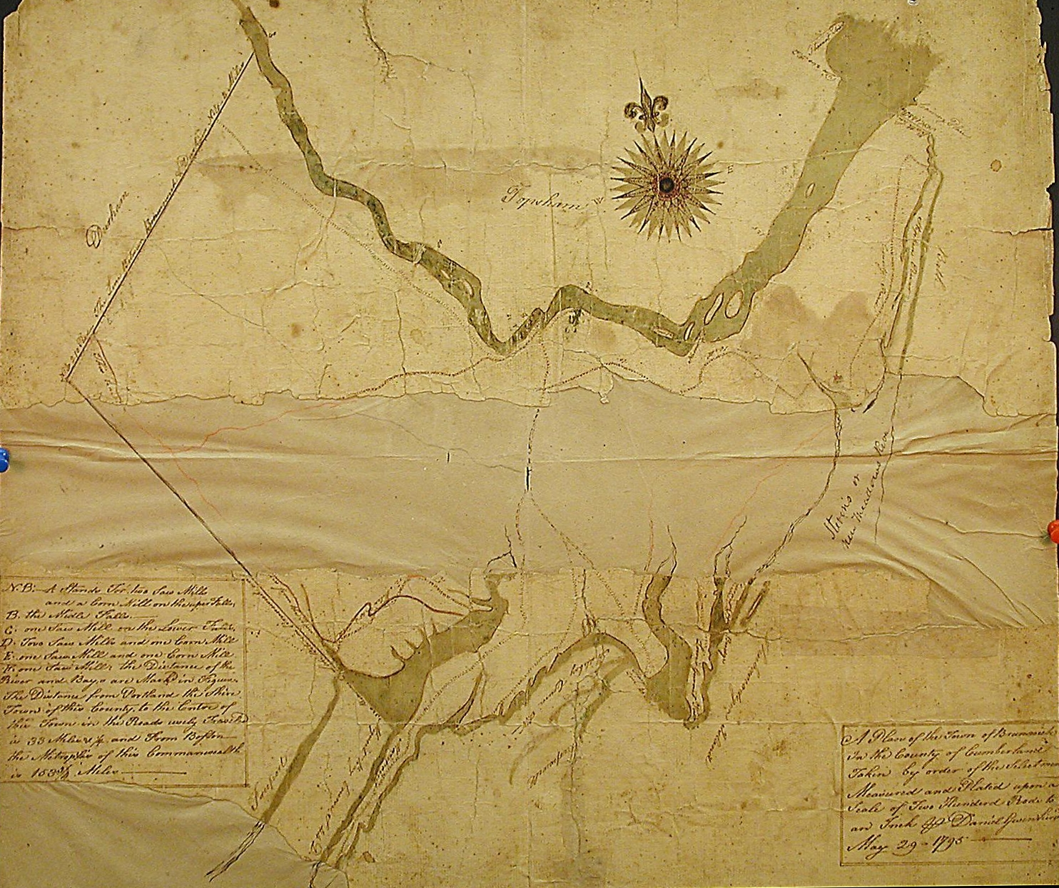 Map # 24 of the town of Brunswick, Maine, showing Steven's or New Meadow River, May 29, 1795. Map was commissioned by the Pejepscot Purchase Company. Courtesy of the Maine Historical Society. Retouched by MarmadukePercy